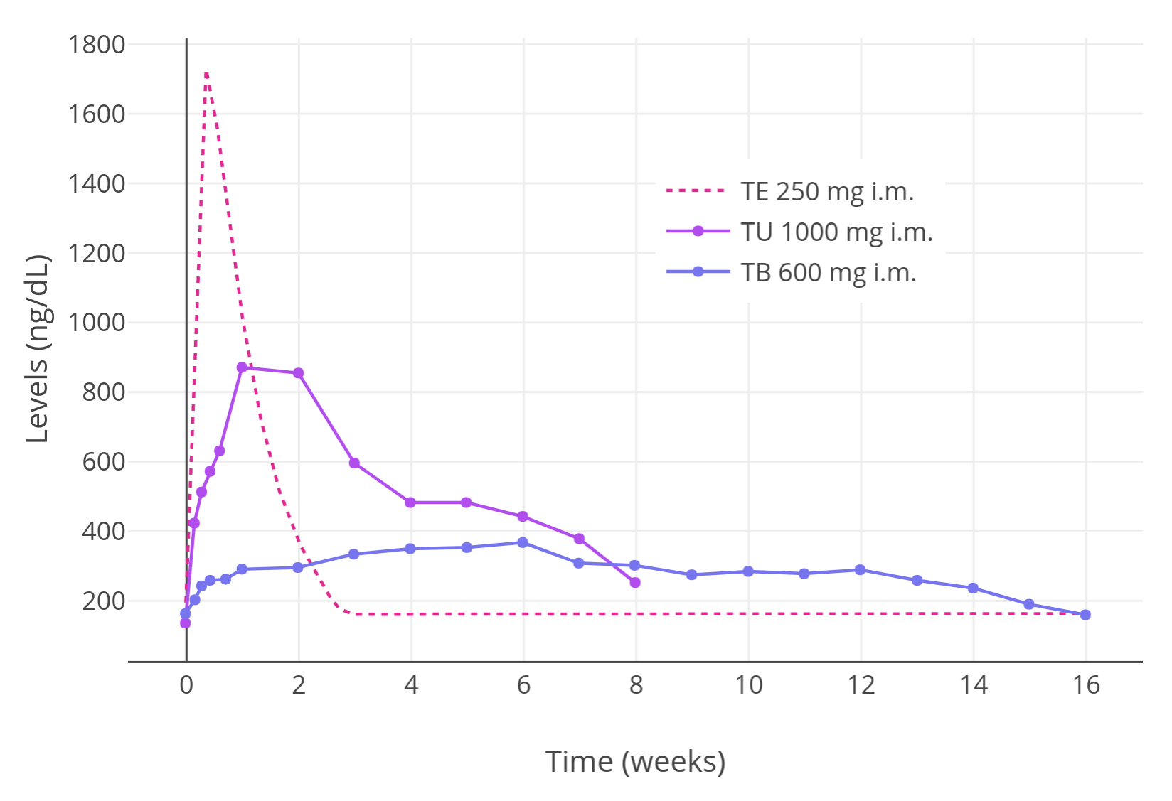 I made this, anyone can use it. Created from source material using WebPlotDigitizer and Plotly. Source of the values: January 2010 Andrology: Male Reproductive Health and Dysfunction, Springer Science & Business Media, pp. 444– ISBN: 978-3-540-78355-8.